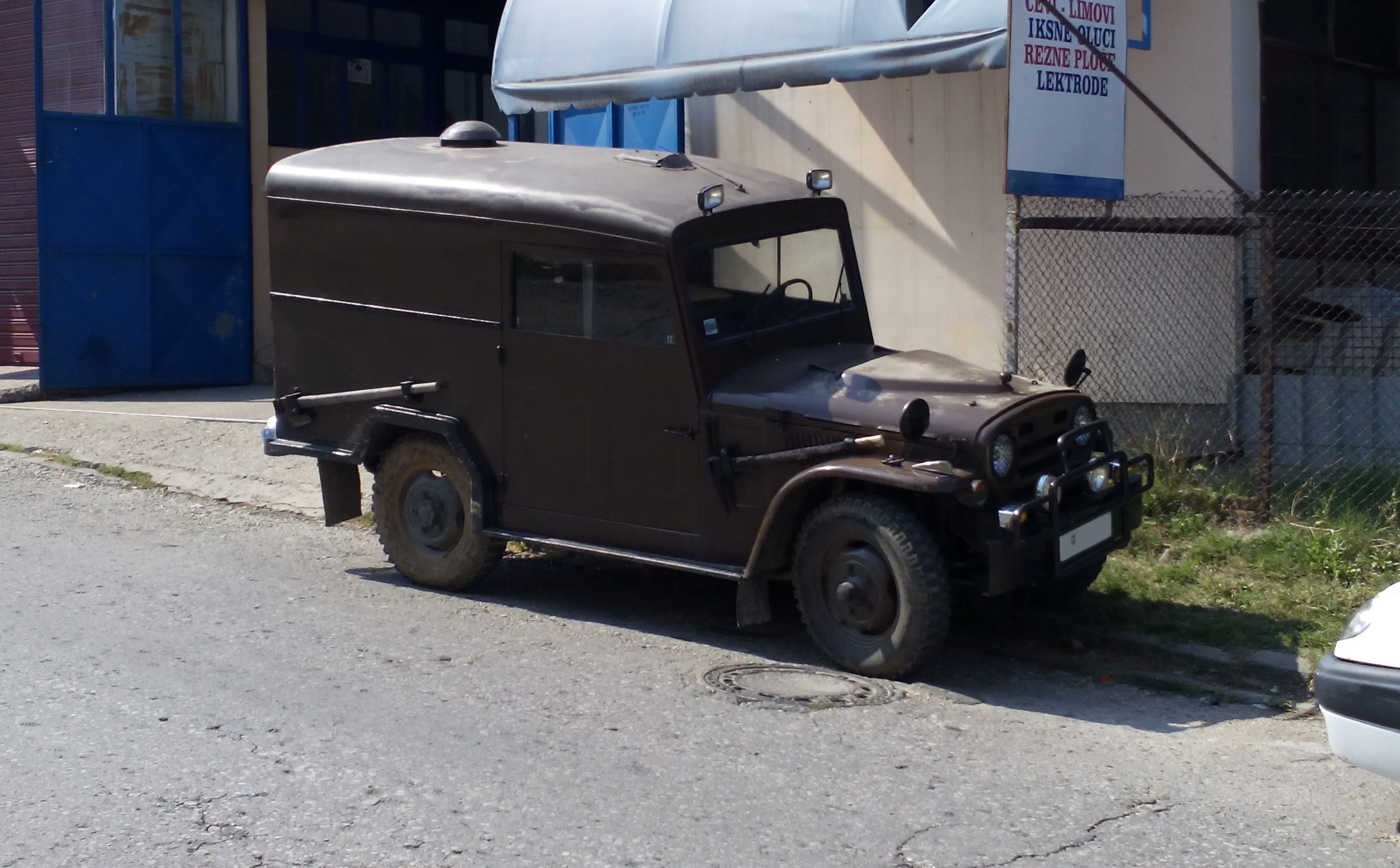 Zastava AR55 in Kragujevac